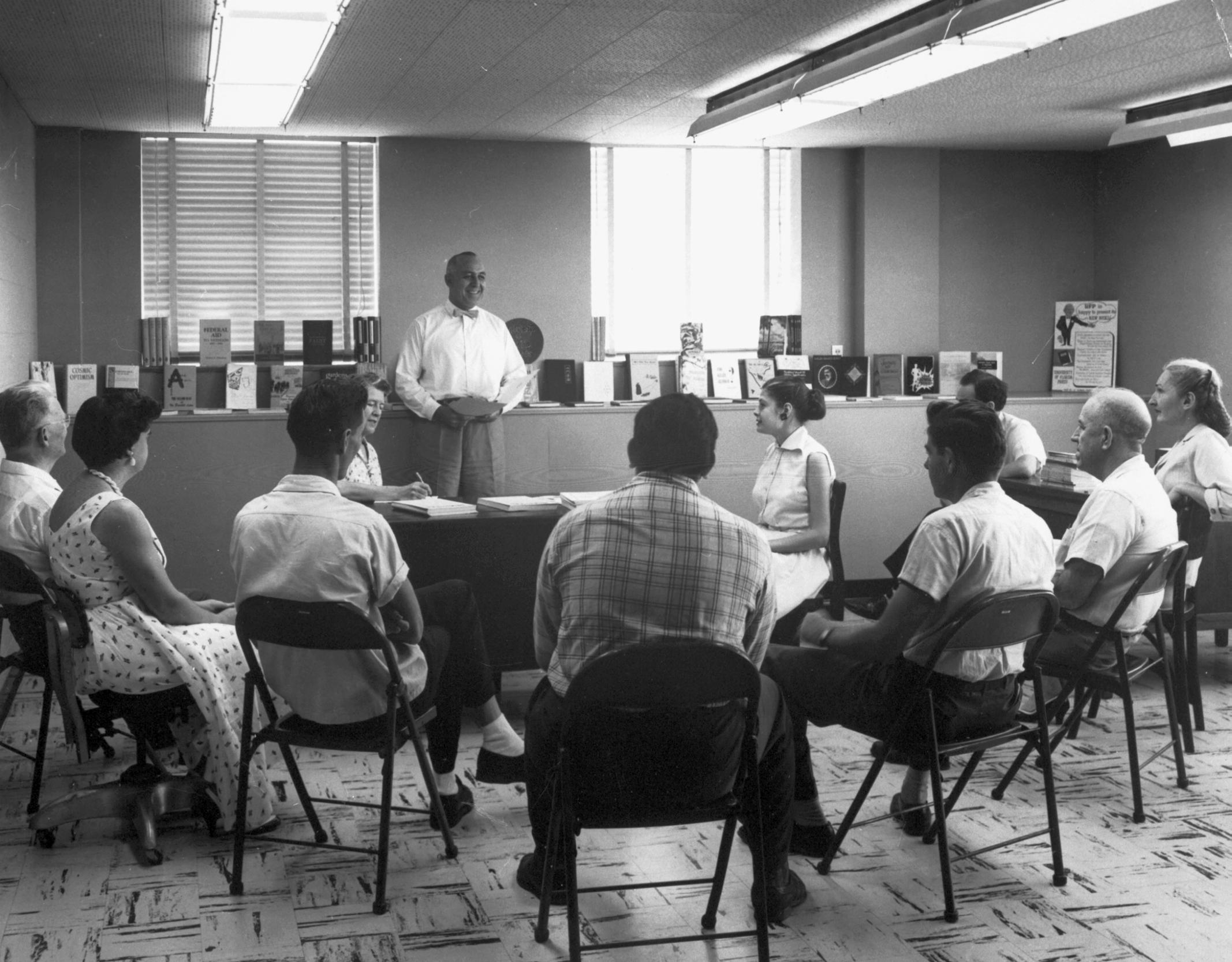 A picture of the University of Florida Press